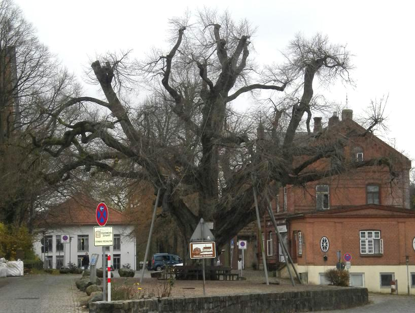 The Judicial Linden Tree (Gerichtslinde) at Bordesholm village, as released by image creator Ristesson; Place: Bordesholm, Germany